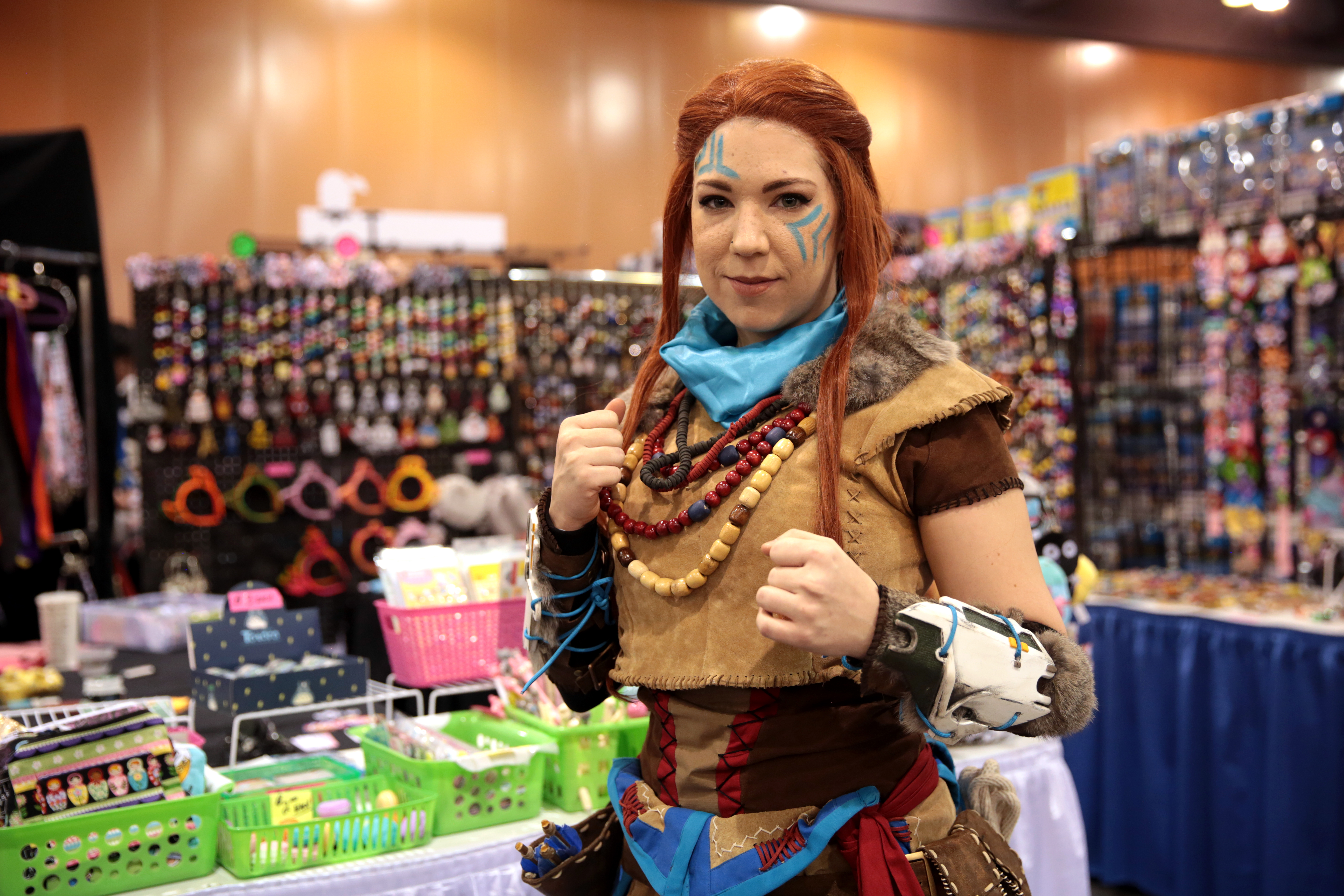 Aloy of Horizon Zero Dawn cosplayer at the 2017 Phoenix Comicon Fan Fest at the Phoenix Convention Center in Phoenix, Arizona.